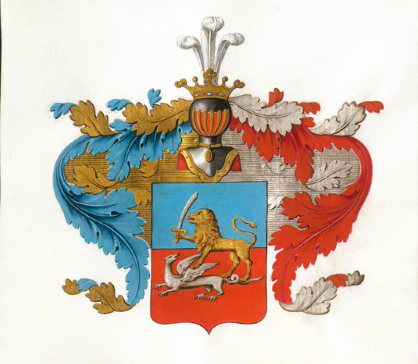 Coat of Arms of Golohvastovy family